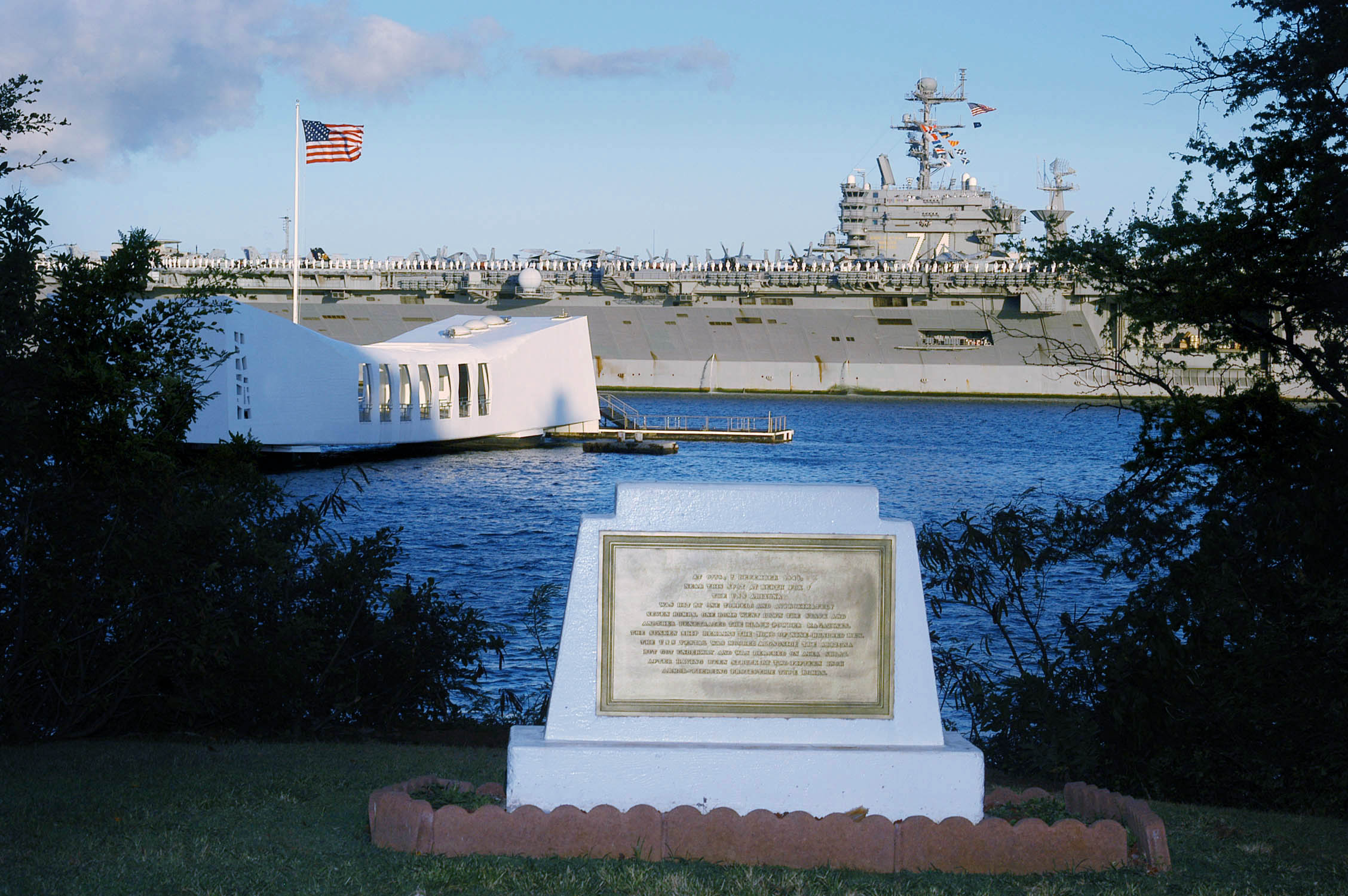 Naval Station Pearl Harbor, Hawaii (July 22, 2004) – USS John C. Stennis (CVN 74) passes the USS Arizona and her memorial plaque as it arrives in Pearl Harbor, Hawaii. The Stennis and Carrier Air Wing Fourteen (CVW 14) are taking part in Rim of the Pacific (RIMPAC) 2004. RIMPAC is the largest international maritime exercise in the waters around the Hawaiian Islands. This years exercise includes seven participating nations; Australia, Canada, Chile, Japan, South Korea, the United Kingdom and the United States. RIMPAC is intended to enhance the tactical proficiency of participating units in a wide array of combined operations at sea, while enhancing stability in the Pacific Rim region. U.S. Navy photo by Photographer's Mate 2nd Class John F. Looney (RELEASED) For more information go to: /